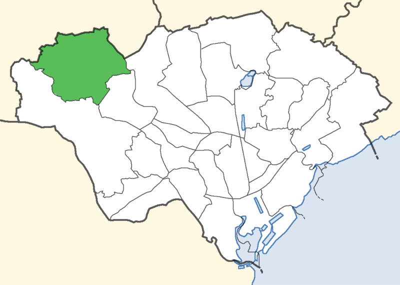 Location map showing electoral ward of Pentyrch within Cardiff, Wales